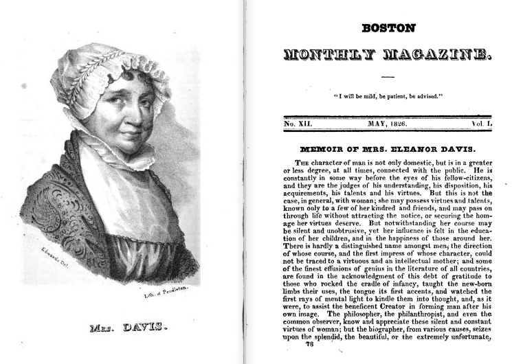 Portrait of Eleanor Davis. Drawn by Thomas Edwards; printed by Pendleton's Lithography, Boston, Massachusetts